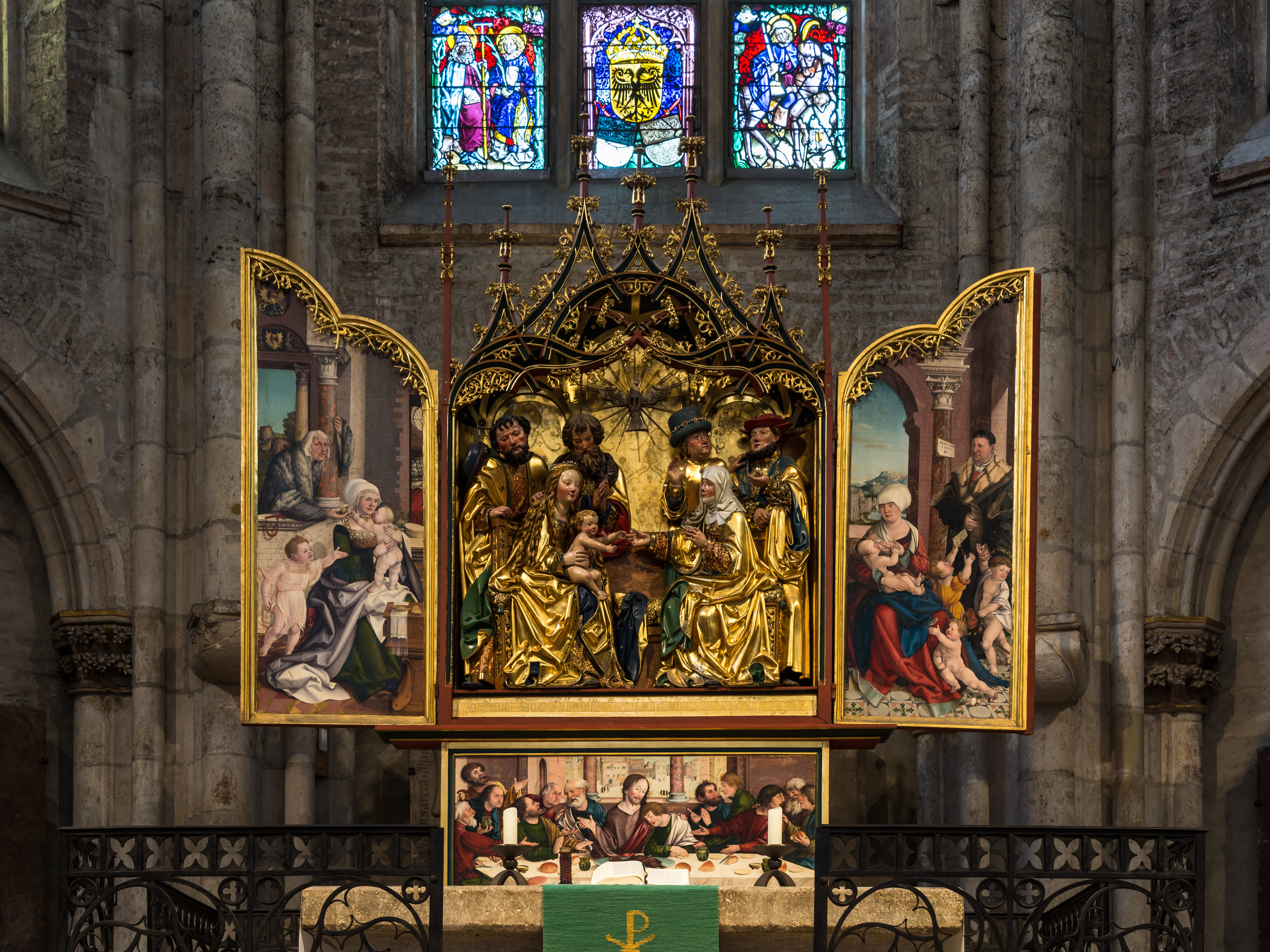 Main altar (Hutz-Altar) of Ulm Minster, Ulm, Baden-Württemberg, Germany. Woodcarvings by an anonymous master; panel paintings by Martin Schaffner, signed and dated 1521.